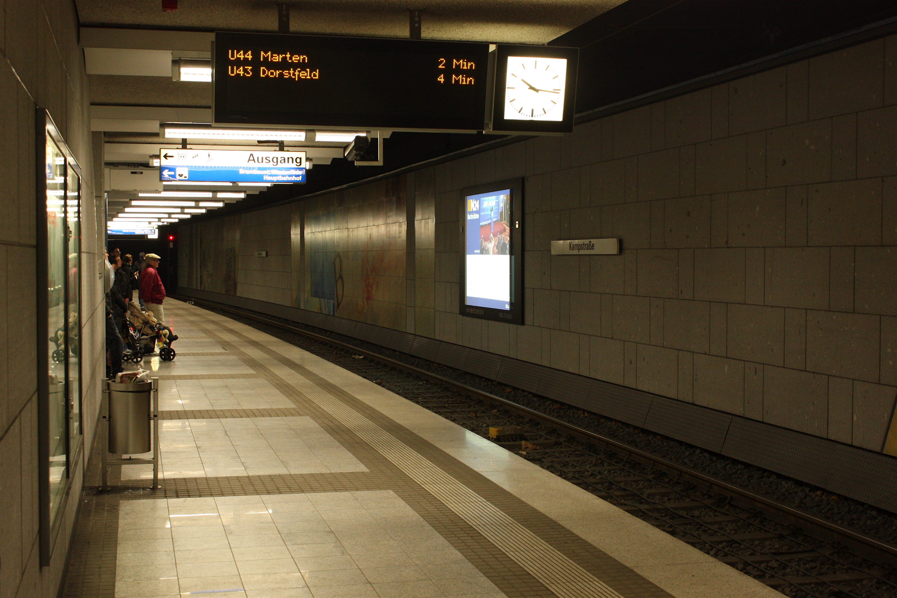 U43/U44 platform of the Kampstraße station in the Dortmund Stadtbahn (local public transit system).